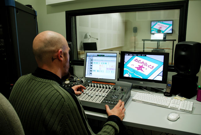 Interior and exterior in a room recording of a dubbing studio